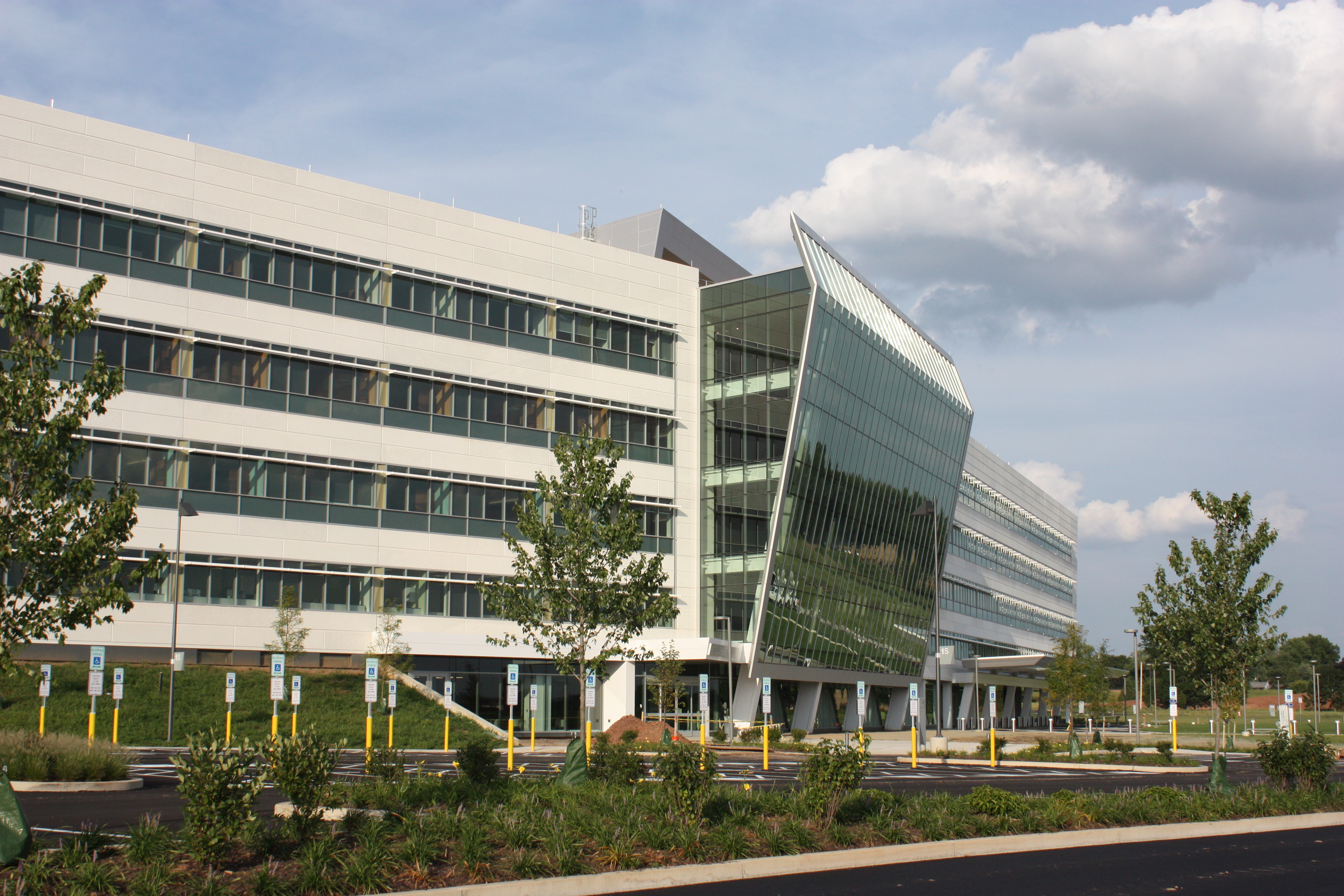 New Hospital getting ready to open